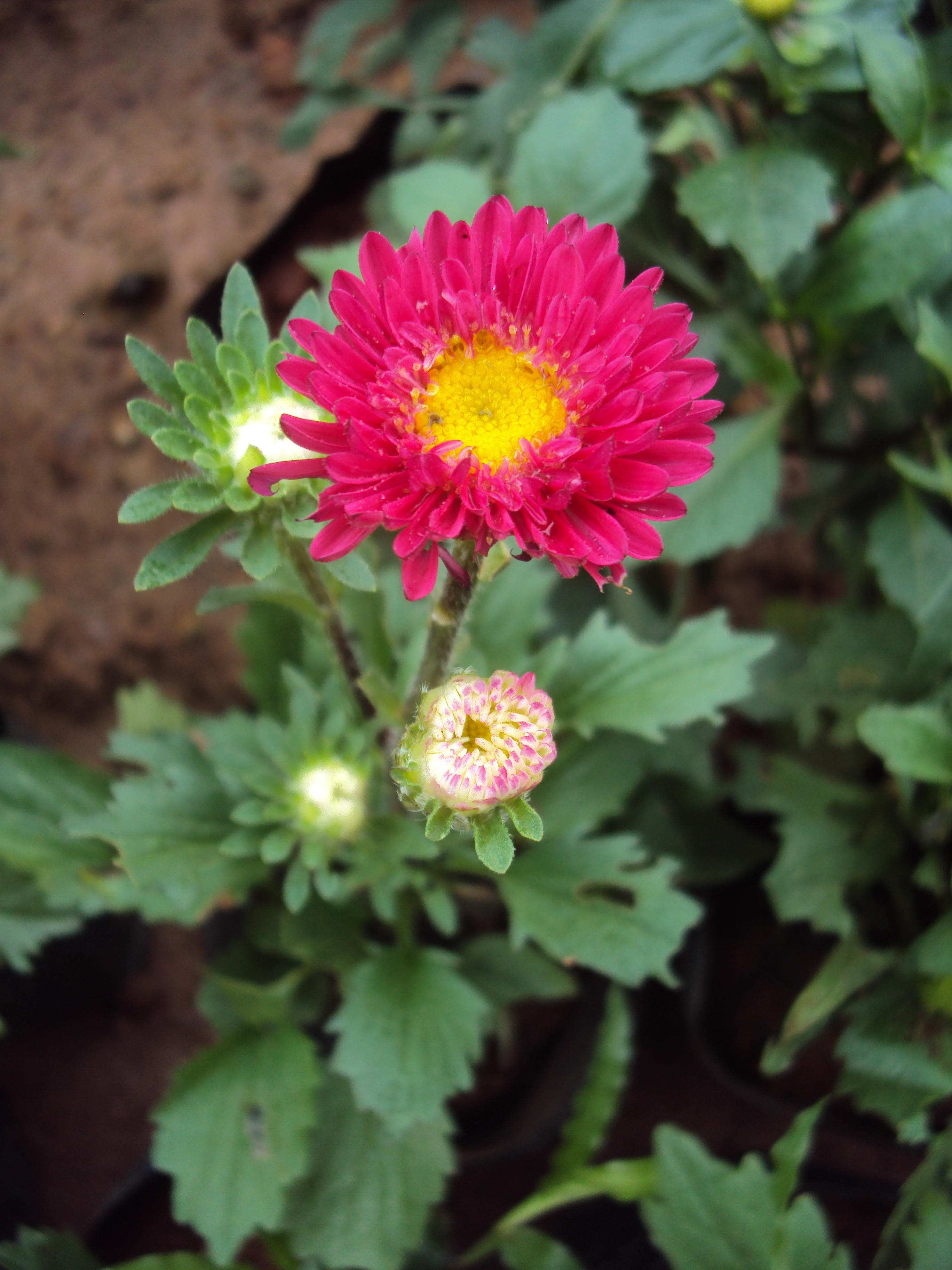 Flowers - Uncategorised Garden plants